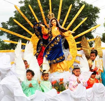 Patrona Titular Masaya: Virgen de Nuestra Señora de la Asuncion, celebracion 15 Agosto